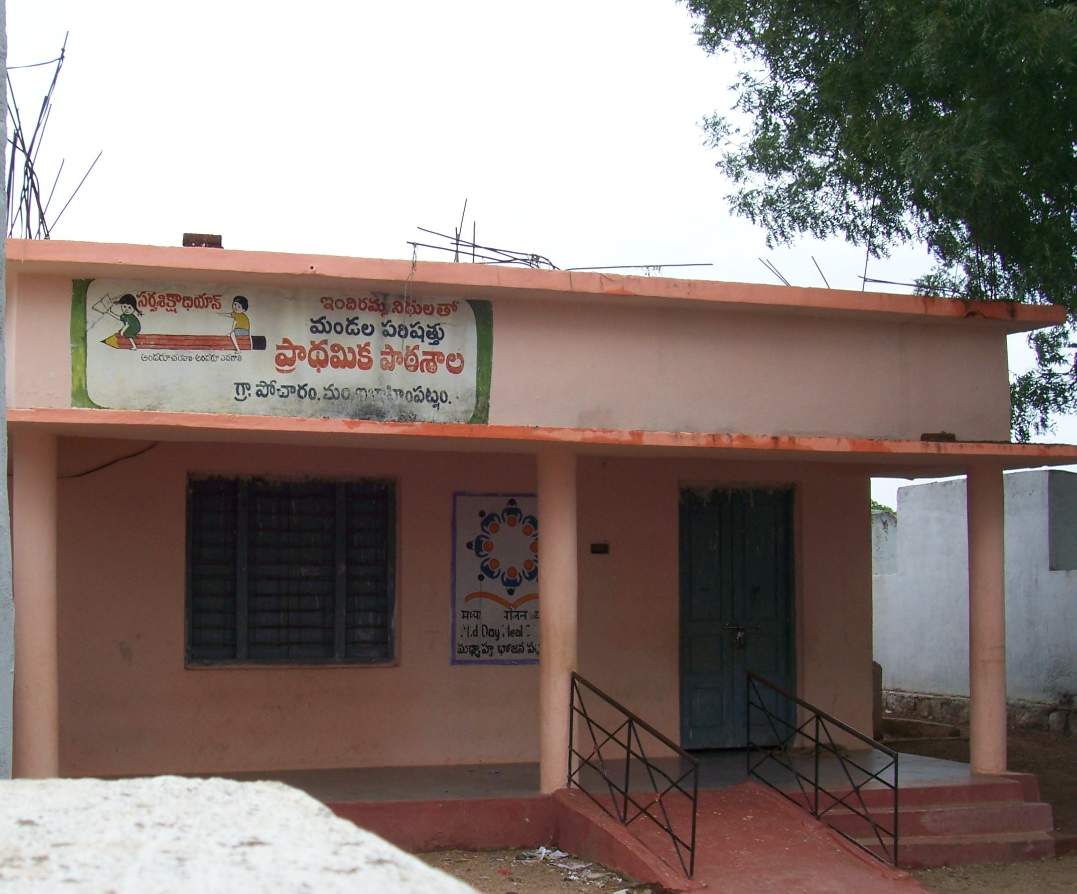 primary school